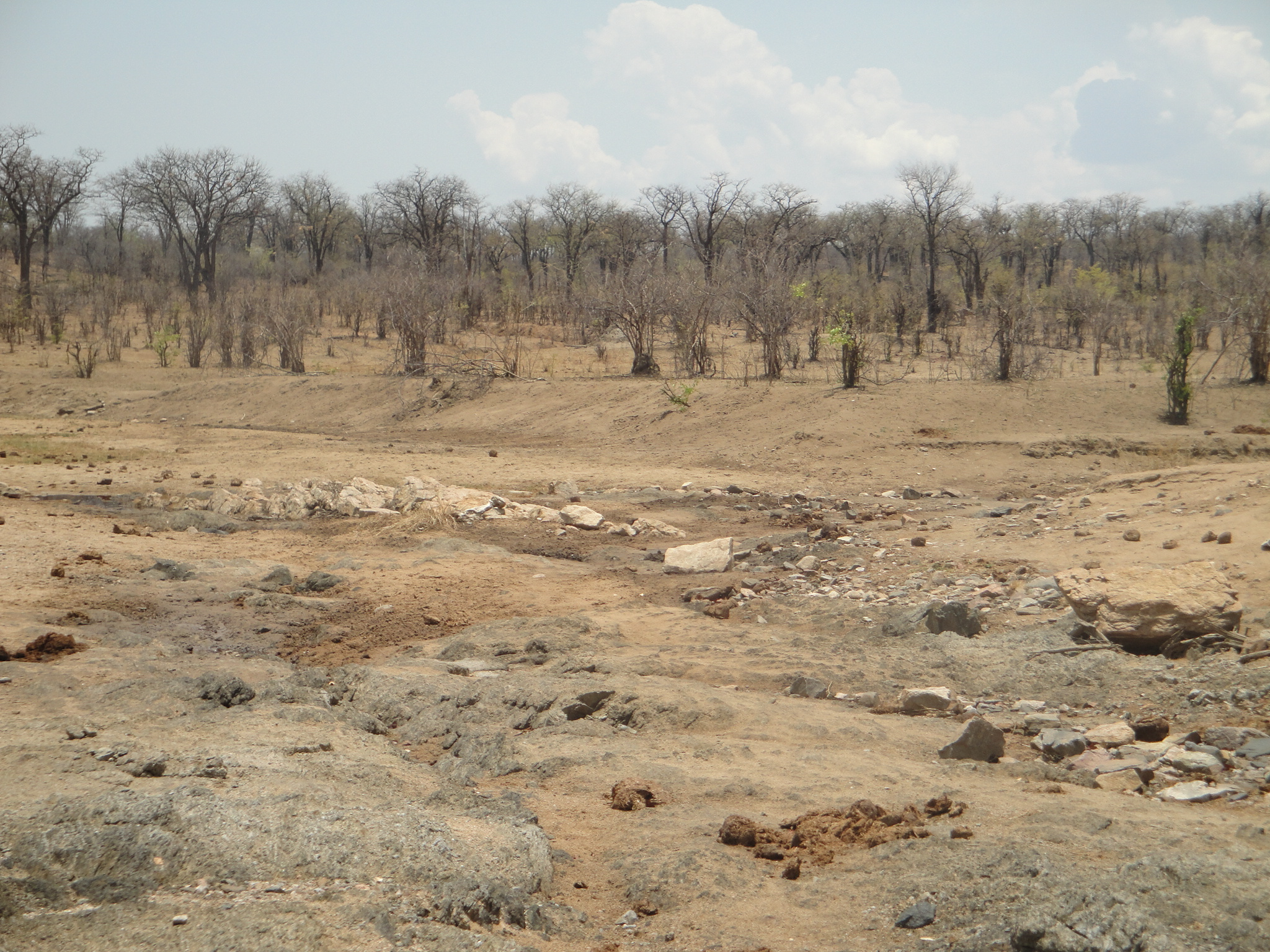 Tshakabika springs, Hwange National Park